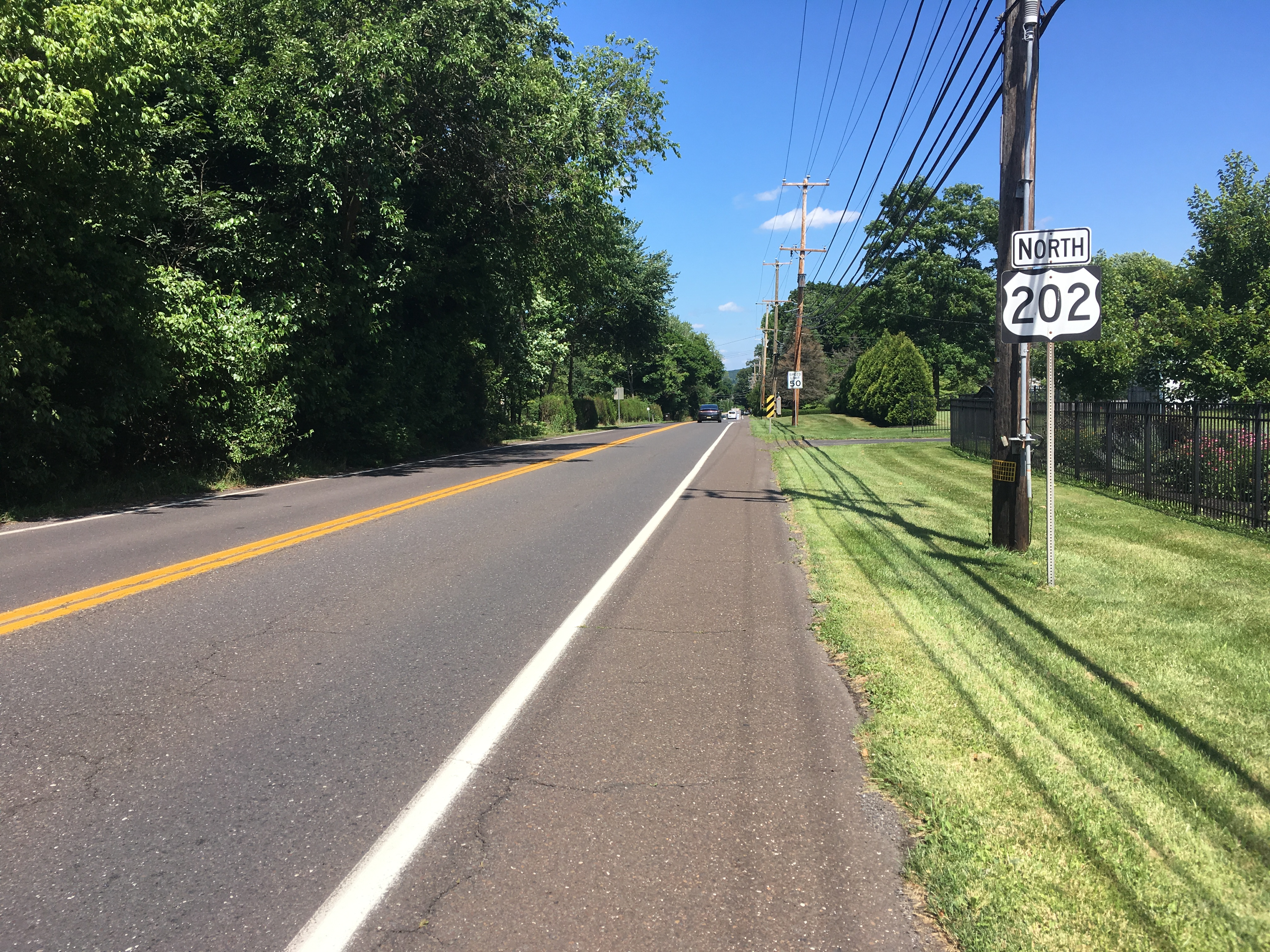 Northbound U.S. Route 202 (Doylestown Buckingham Pike) past the intersection with Burnt House Hill Road in Buckingham Township, Pennsylvania.